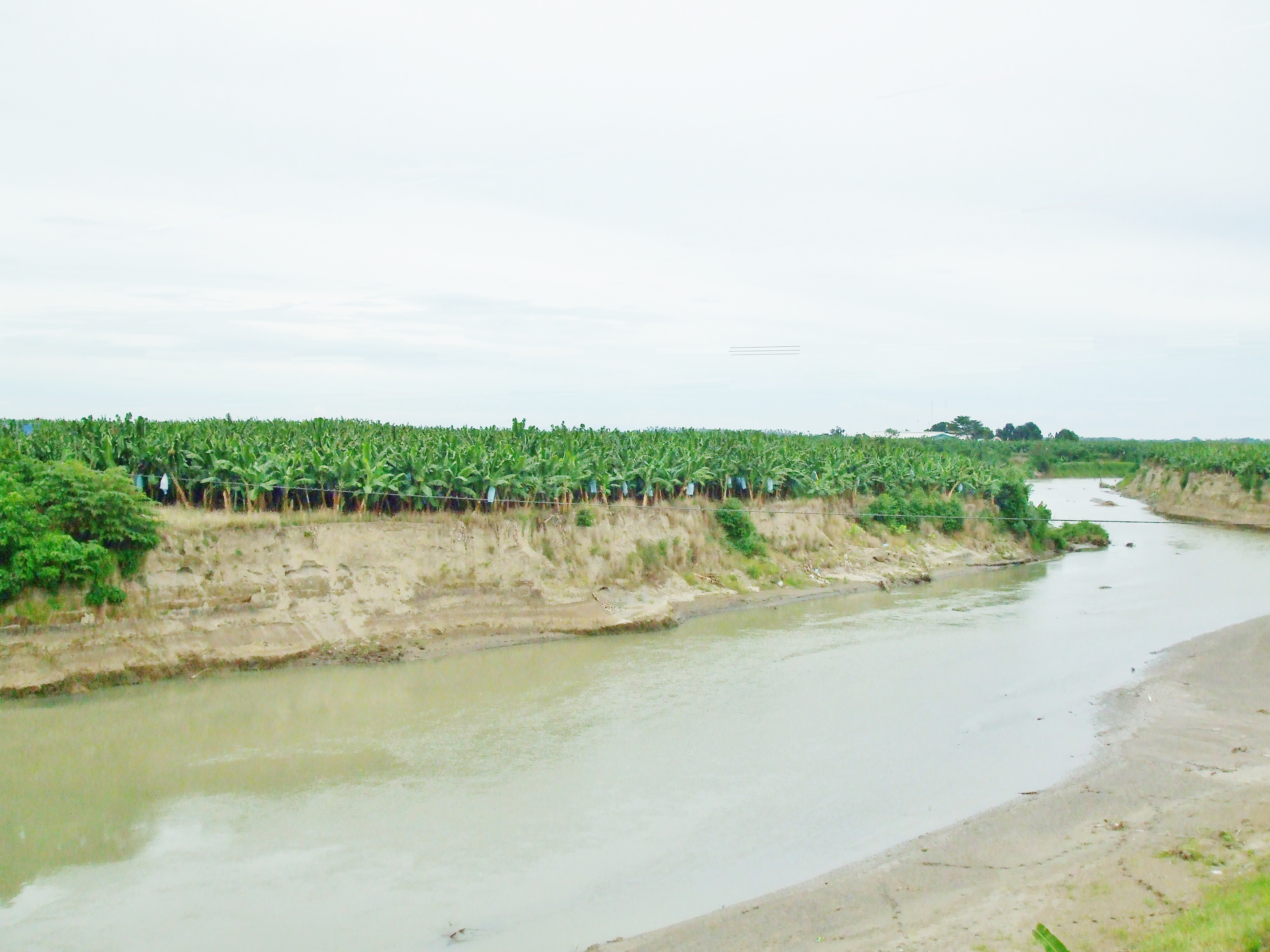 Banana Plant Hagonoy